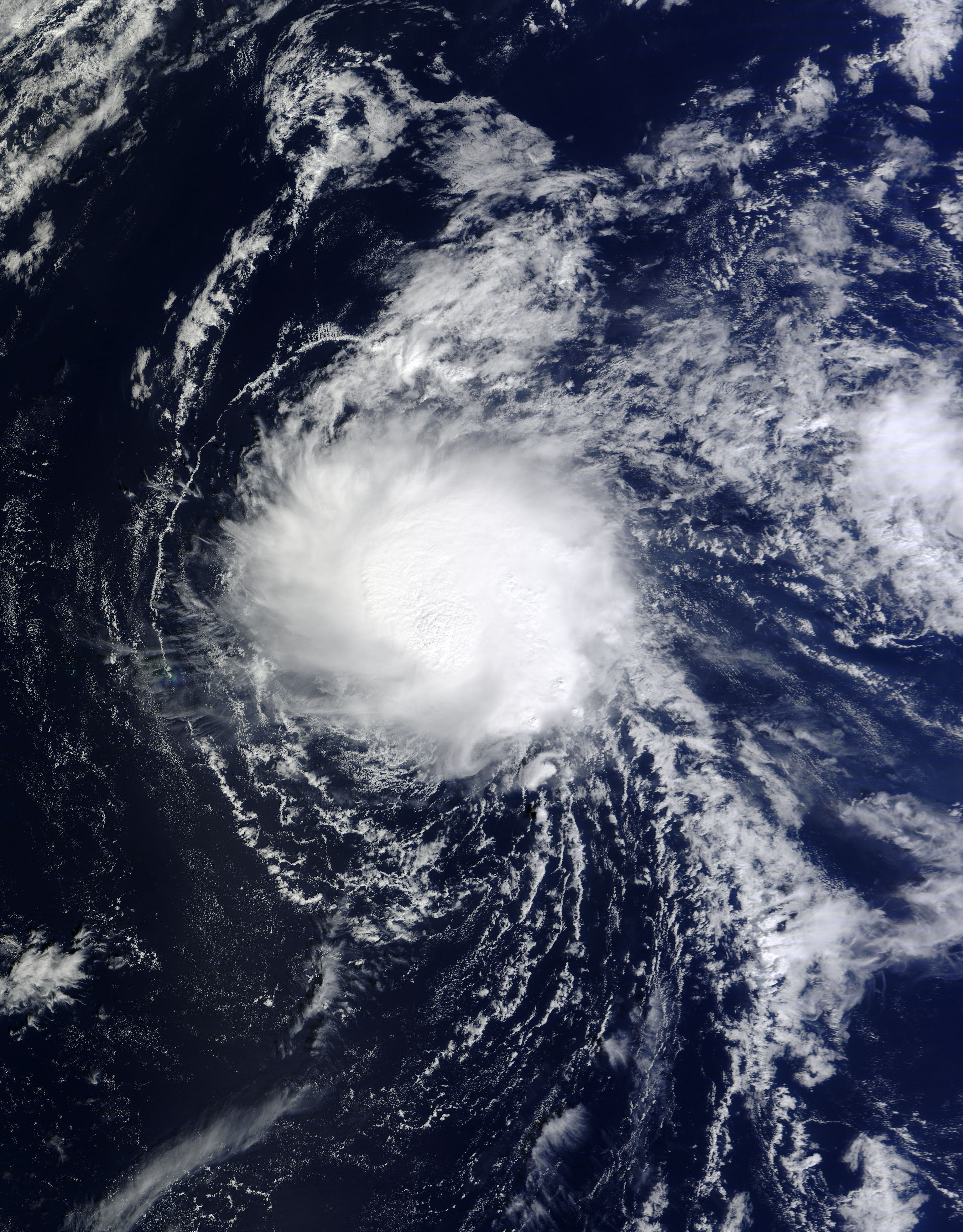 Tropical Storm Ana (02C) in the North Pacific Ocean